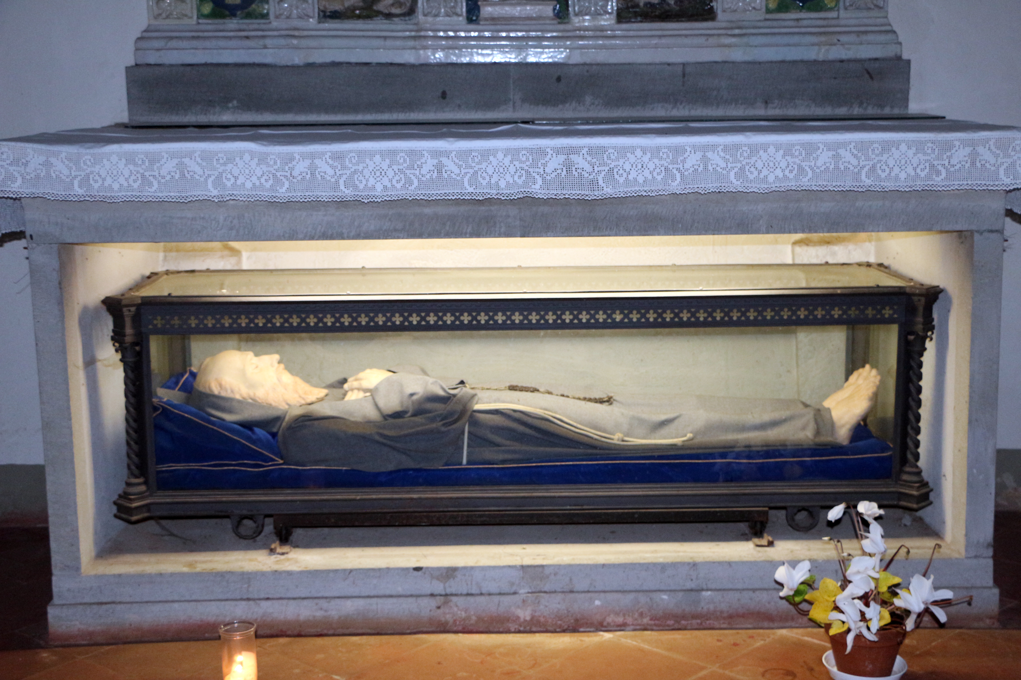 San Vivaldo church